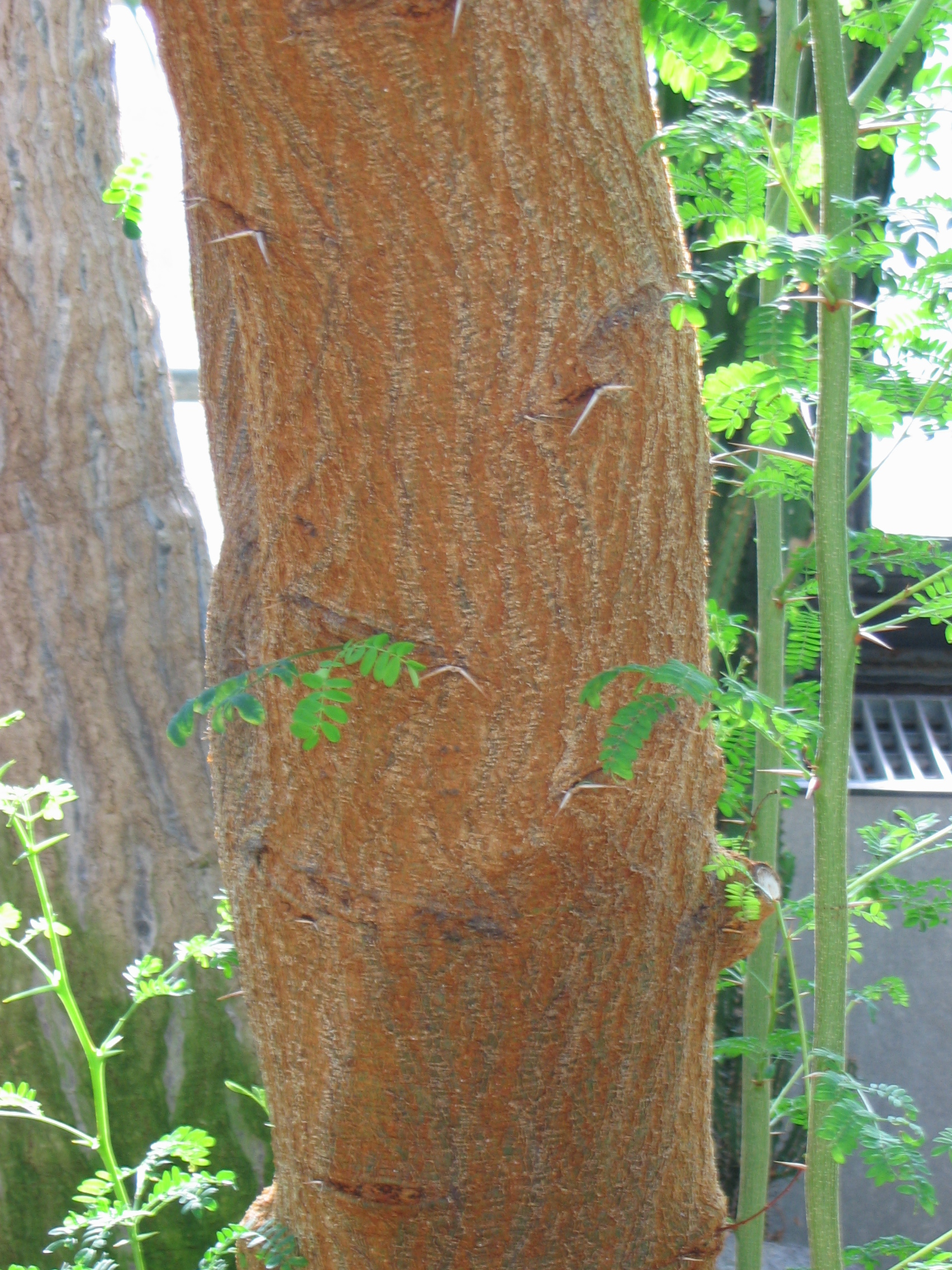 Acacia seyal. Bark of the tree. Picture taken in Tübingen, botanic gardens.